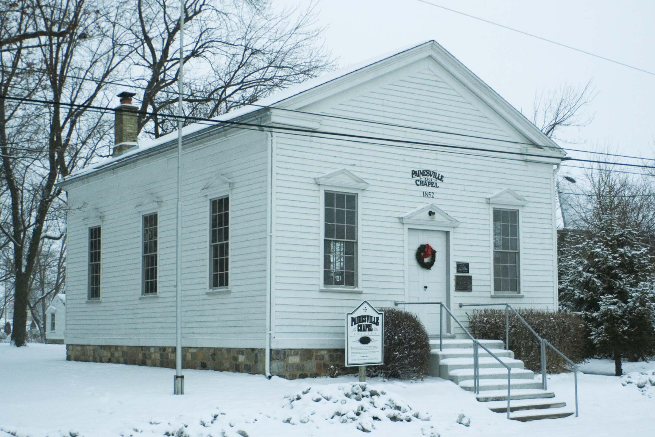 The Painesville Chapel, registered historic place, in Franklin Wisconsin.